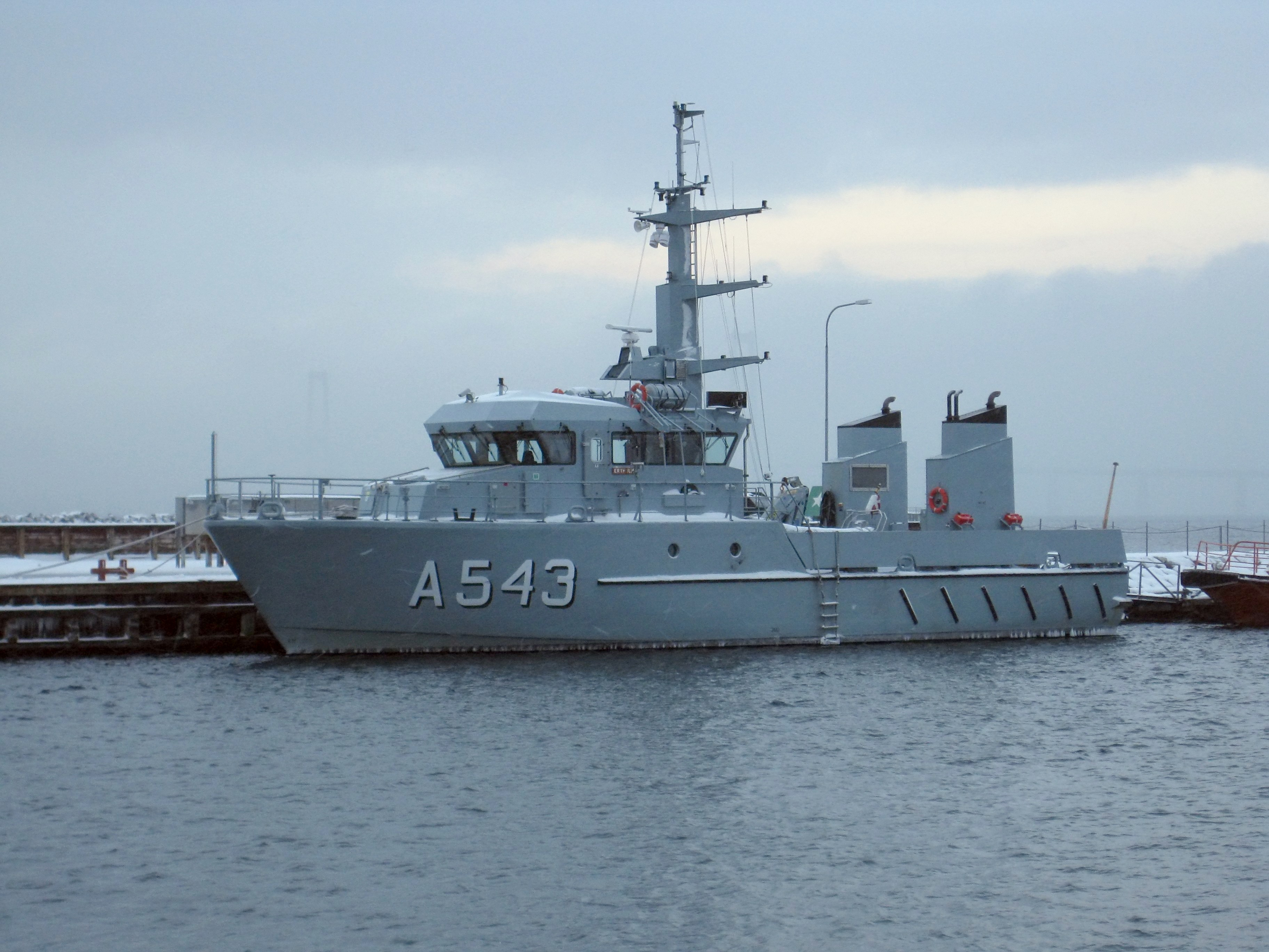 A543 Ertholm moored at naval base Korsør